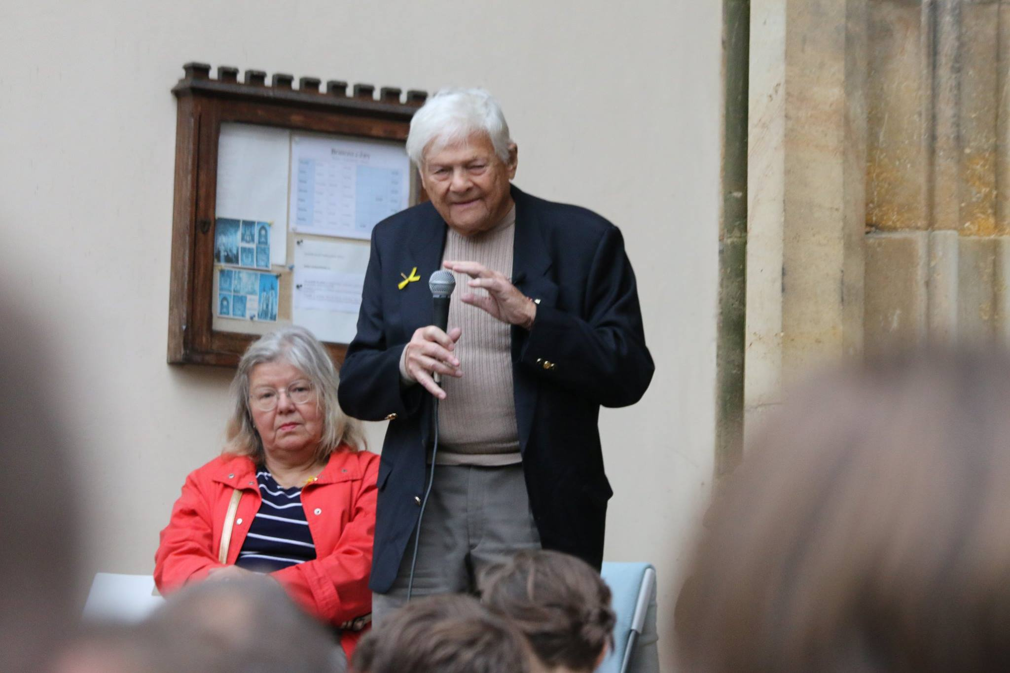 George Brady and his wife